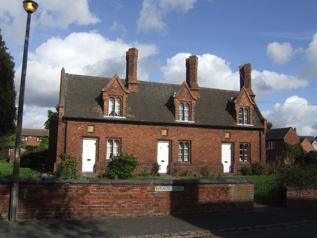 Almshouses in Manor Road These date from 1860 and were funded by the Lane and Tomline families to house three poor men of the parish. The buildings carry the Lane armorial.